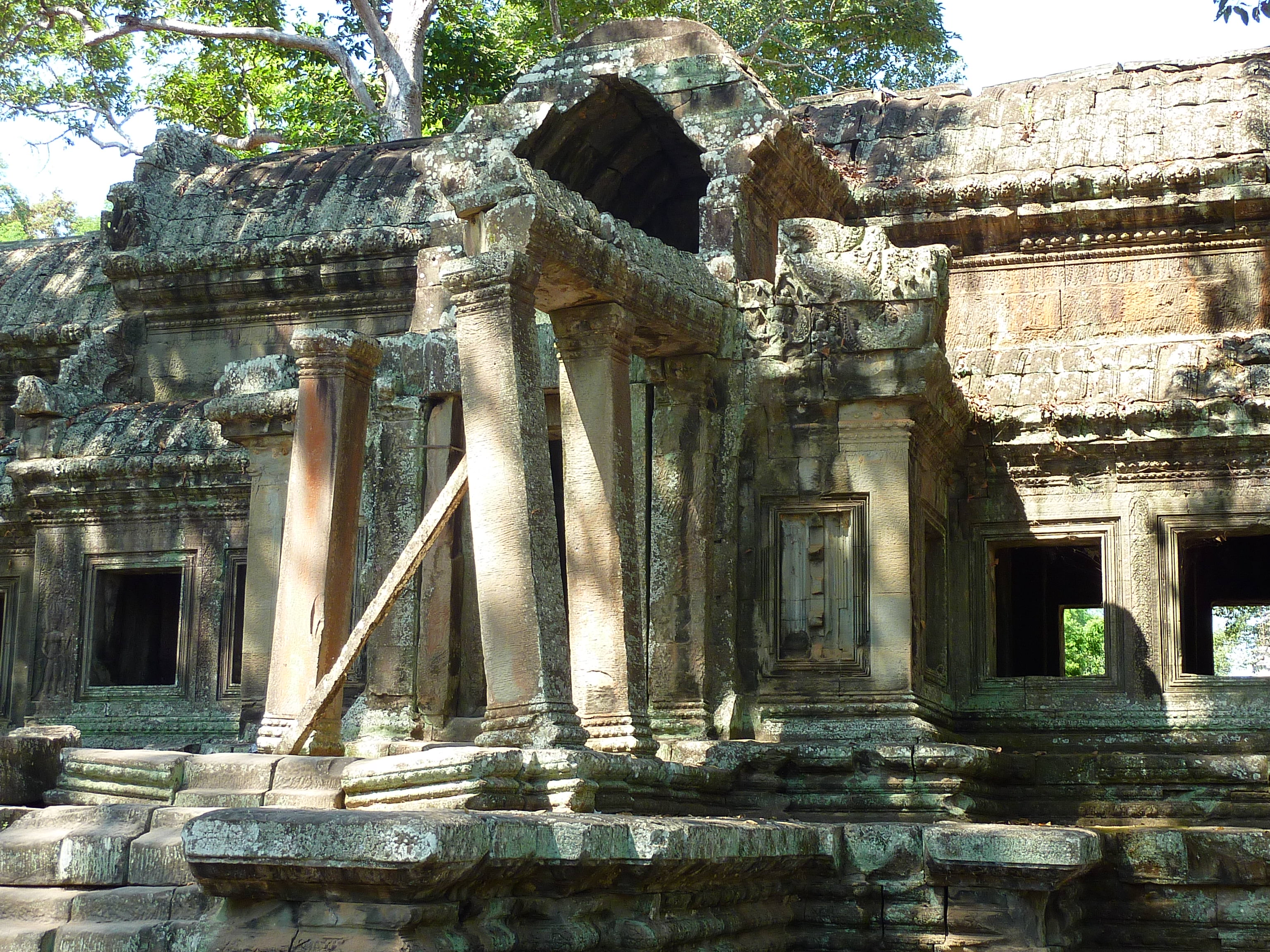 027 Architecture at Angkor Wat Photograph from Angkor Wat in Cambodia taken by Anandajoti.